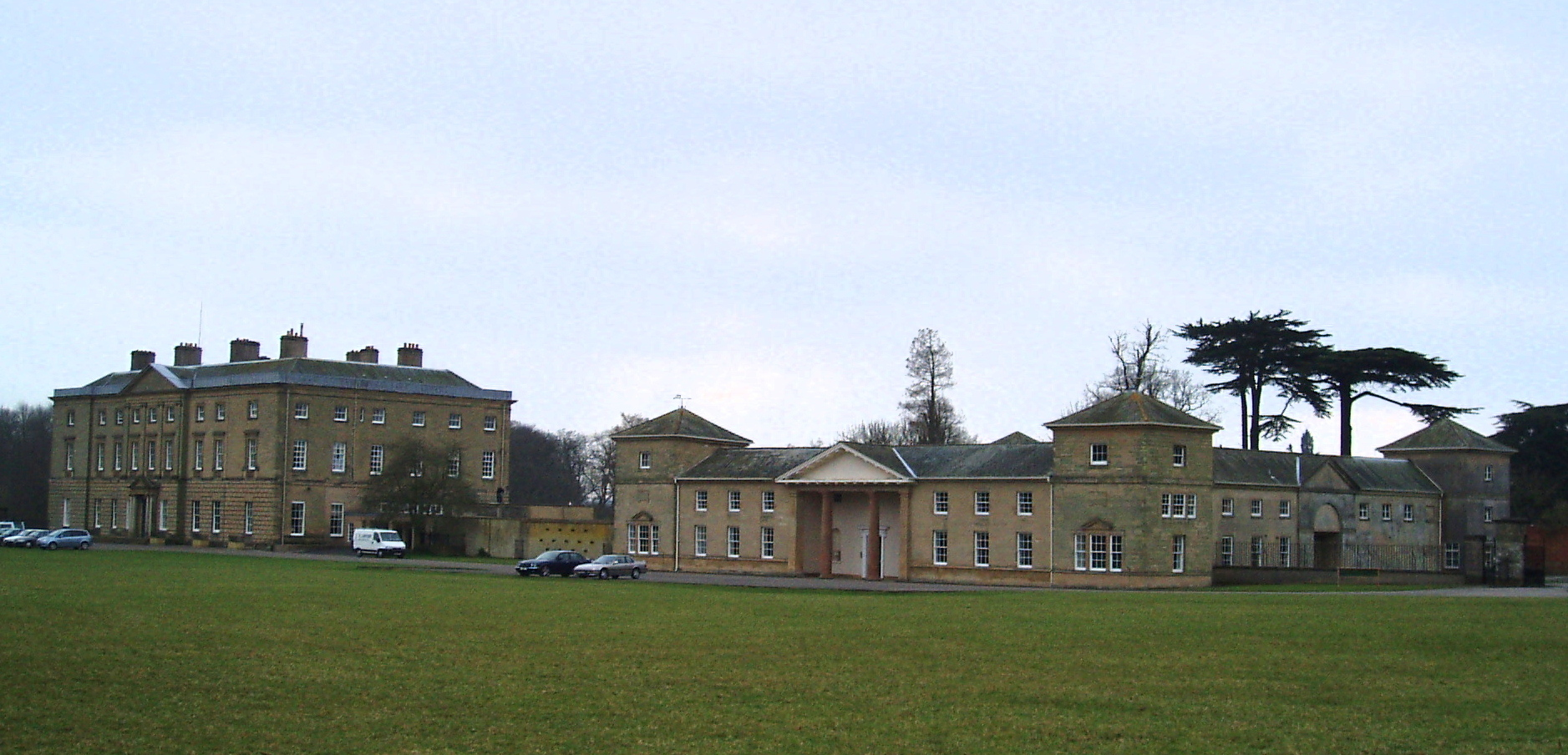 Packington Hall, Warwickshire, England.